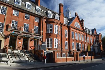 Working Men's College main building at 44 Crowdale Road